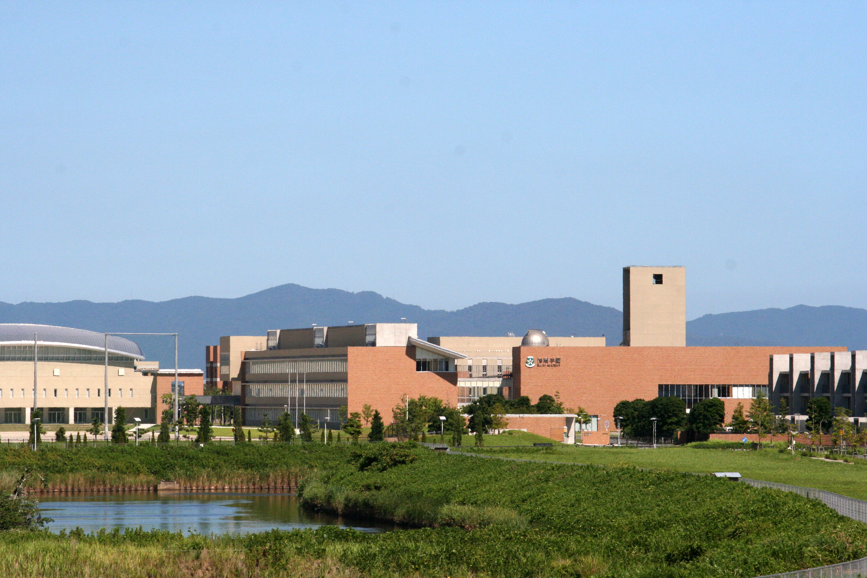 Kaiyo Academy at Gamagori,Aichi,Japan